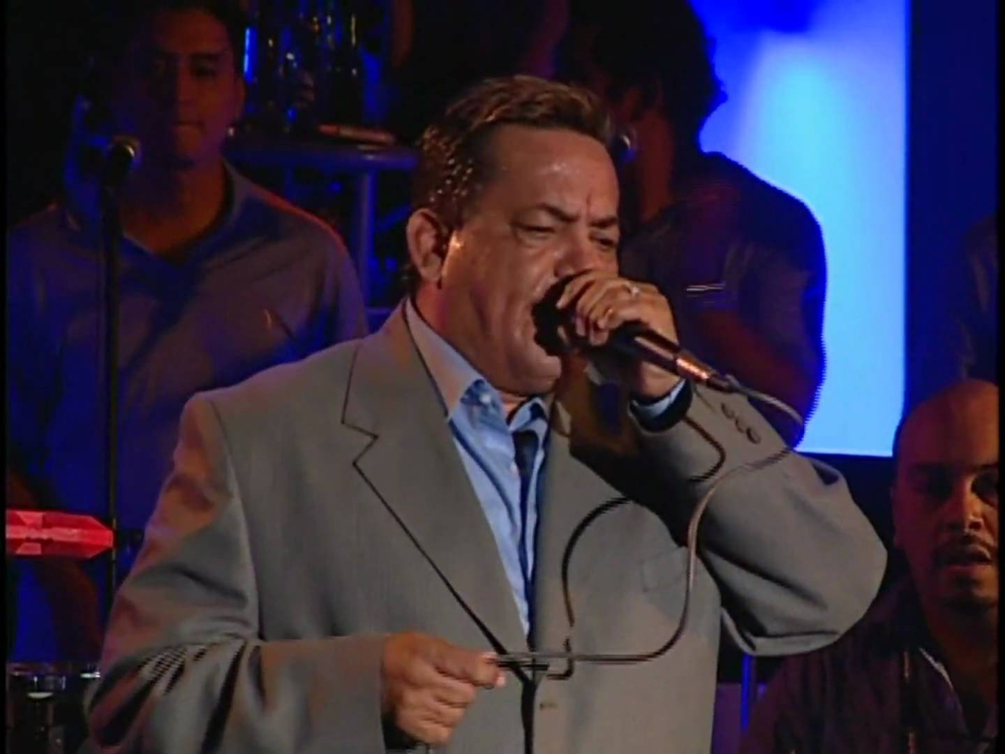 Tito Gomez in Medellin, Colombia 2007. Singing with el Grupo Gale, which wanted to honour all his greatest hits